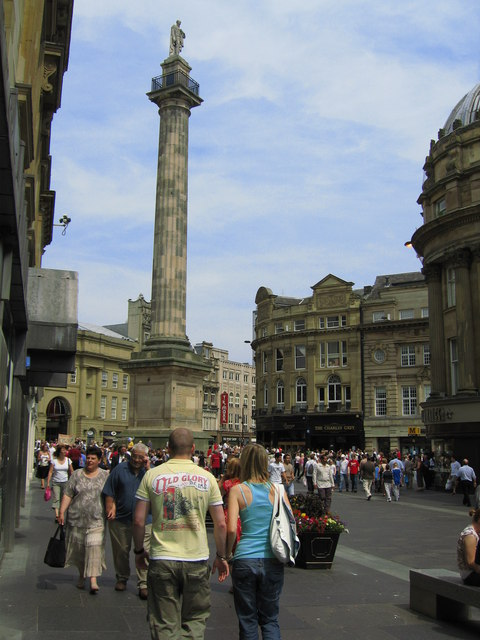 Earl Grey Monument, Newcastle Upon Tyne